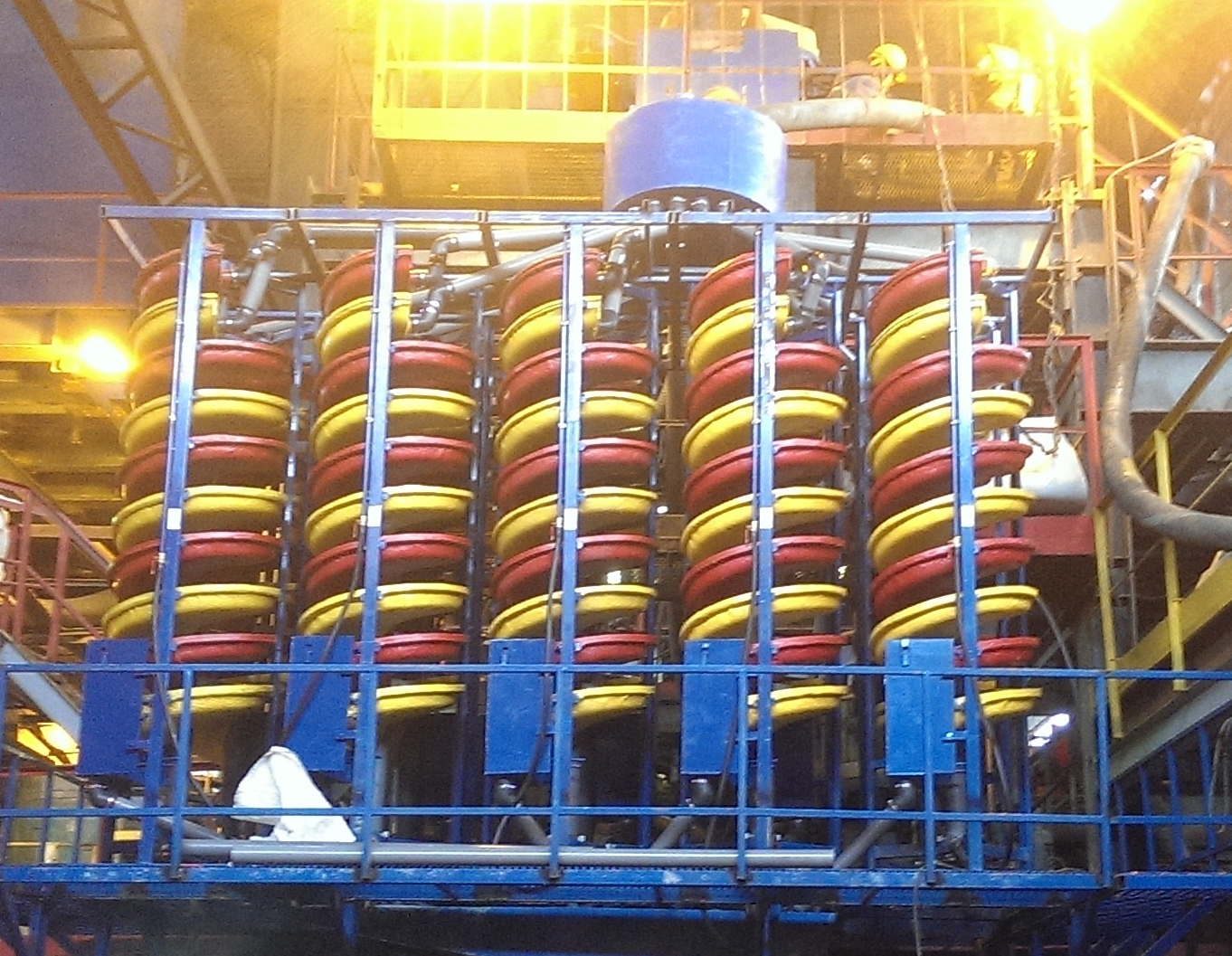 Spiral sluice (W)